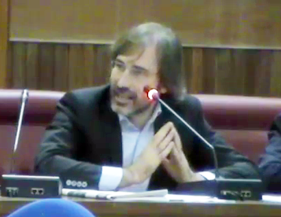 Simone Petrangeli, mayor of Rieti (Lazio, Italy) from 2012 until 2017, speaks in the provincial palace's council hall during a meeting between mayors